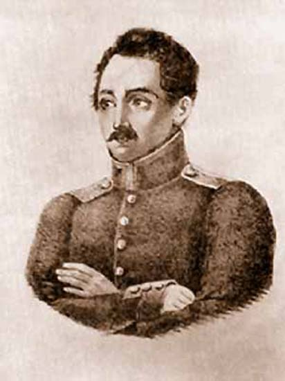 Poet Alexander Polezhayev, 1827 litography